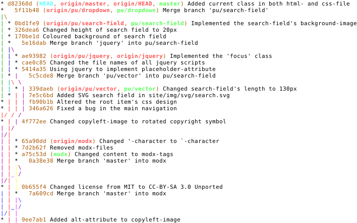 The output of git log --color --graph --oneline --all --decorate in a project with many branches and merges